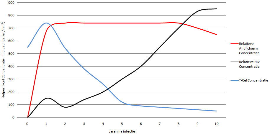 The different stages of HIV with concentration Helper-t-cells